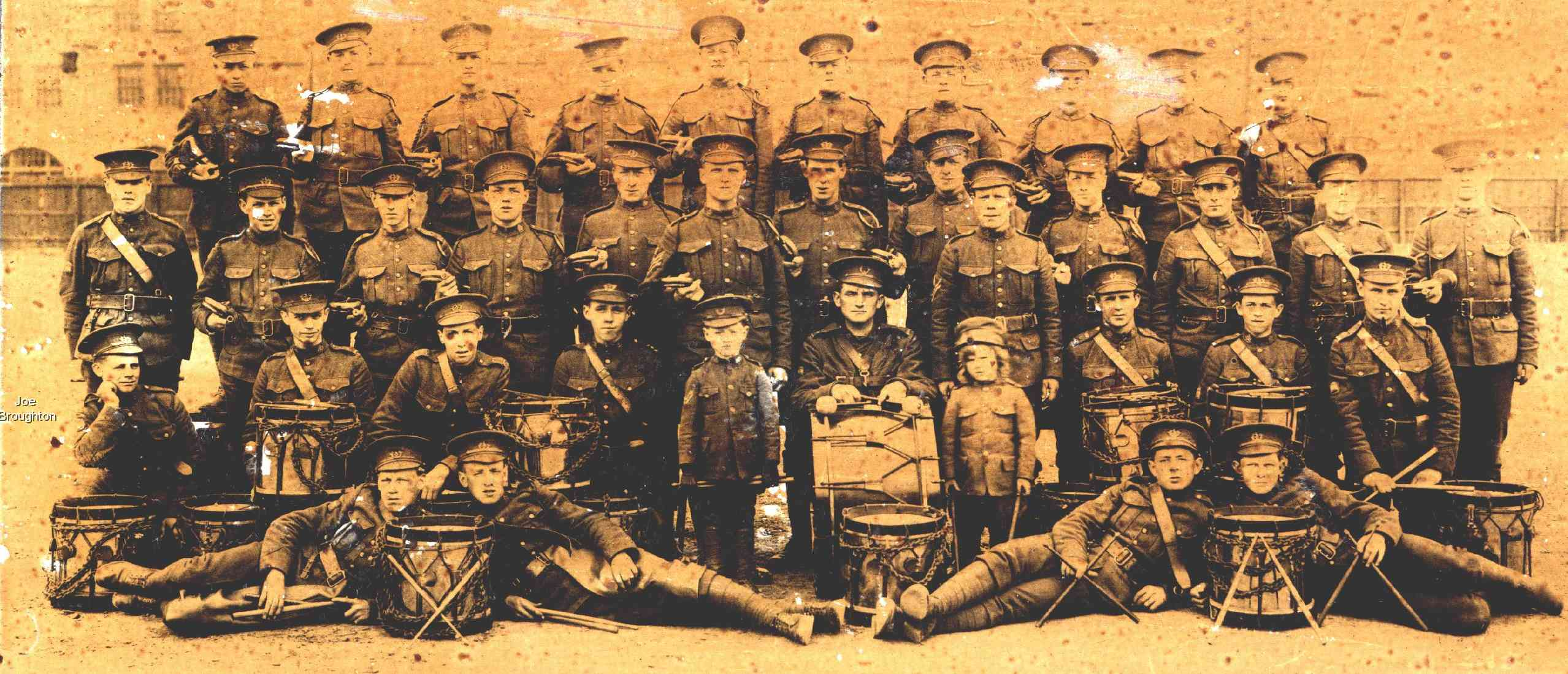 Joe Broughton (my Grandfather) in 144th Overseas Battalion Winnipeg Rifles C. E. F. Bugle Band. Showing Drums And Bugles